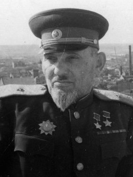 Sydir Kovpak in Moscow in 1945